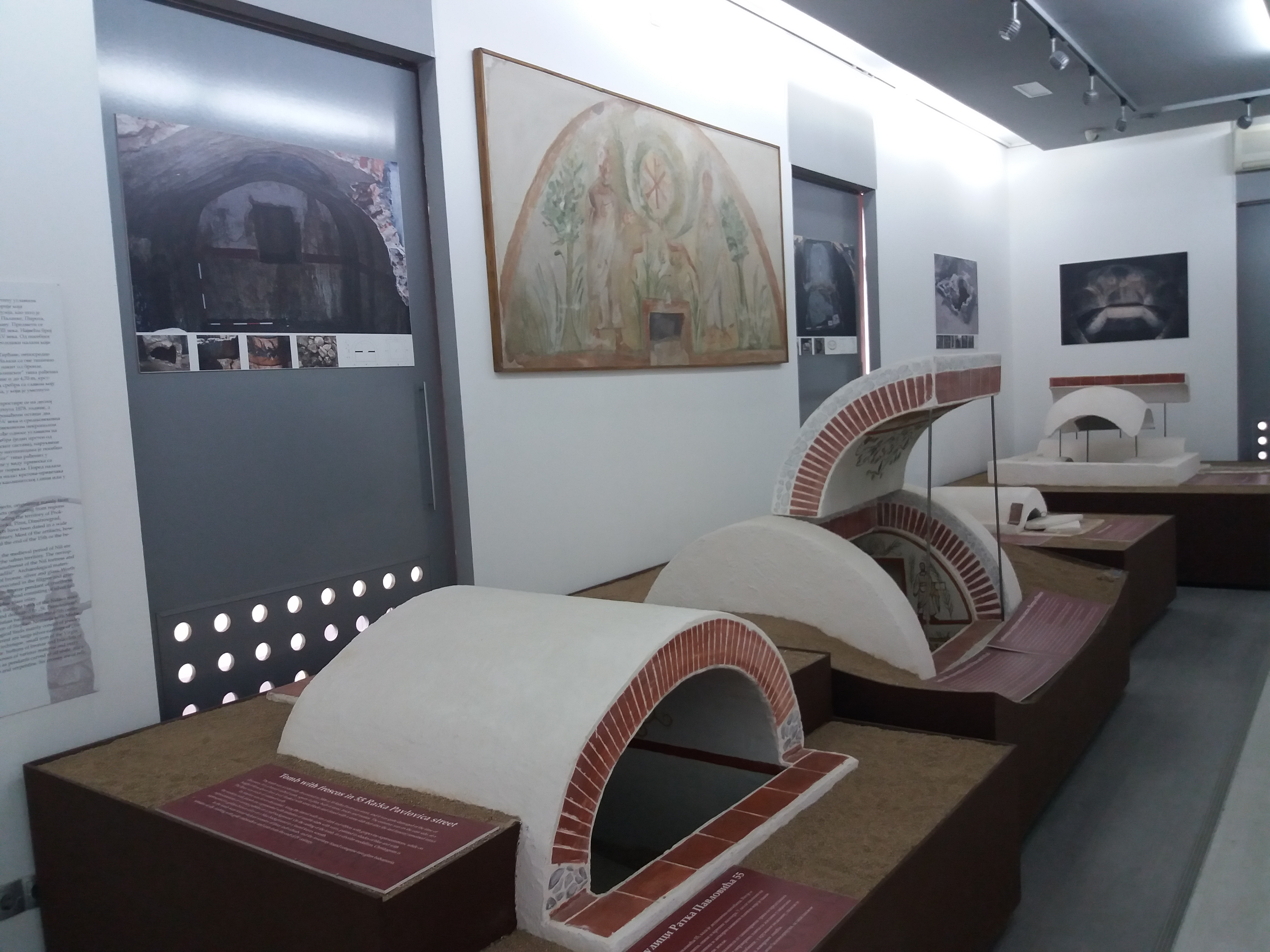 Narodni muzej Niš. Epigraphic monuments are of particular importance for studying the history of ancient Nais.